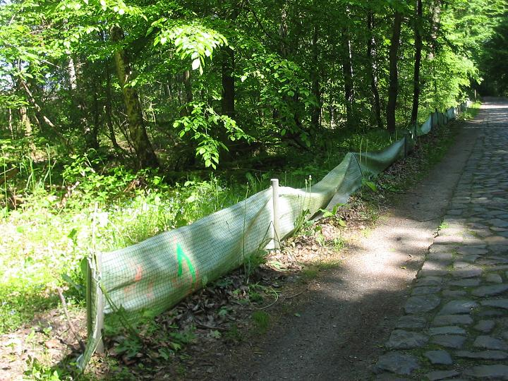 Fence for amphibian welfare at Parsteiner See nearby the peninsula Pehlitzwerder. The Parsteiner See is a finger lake (proglacial lake) in Germany, Brandenburg, District Barnim, and covers 10,03 km².